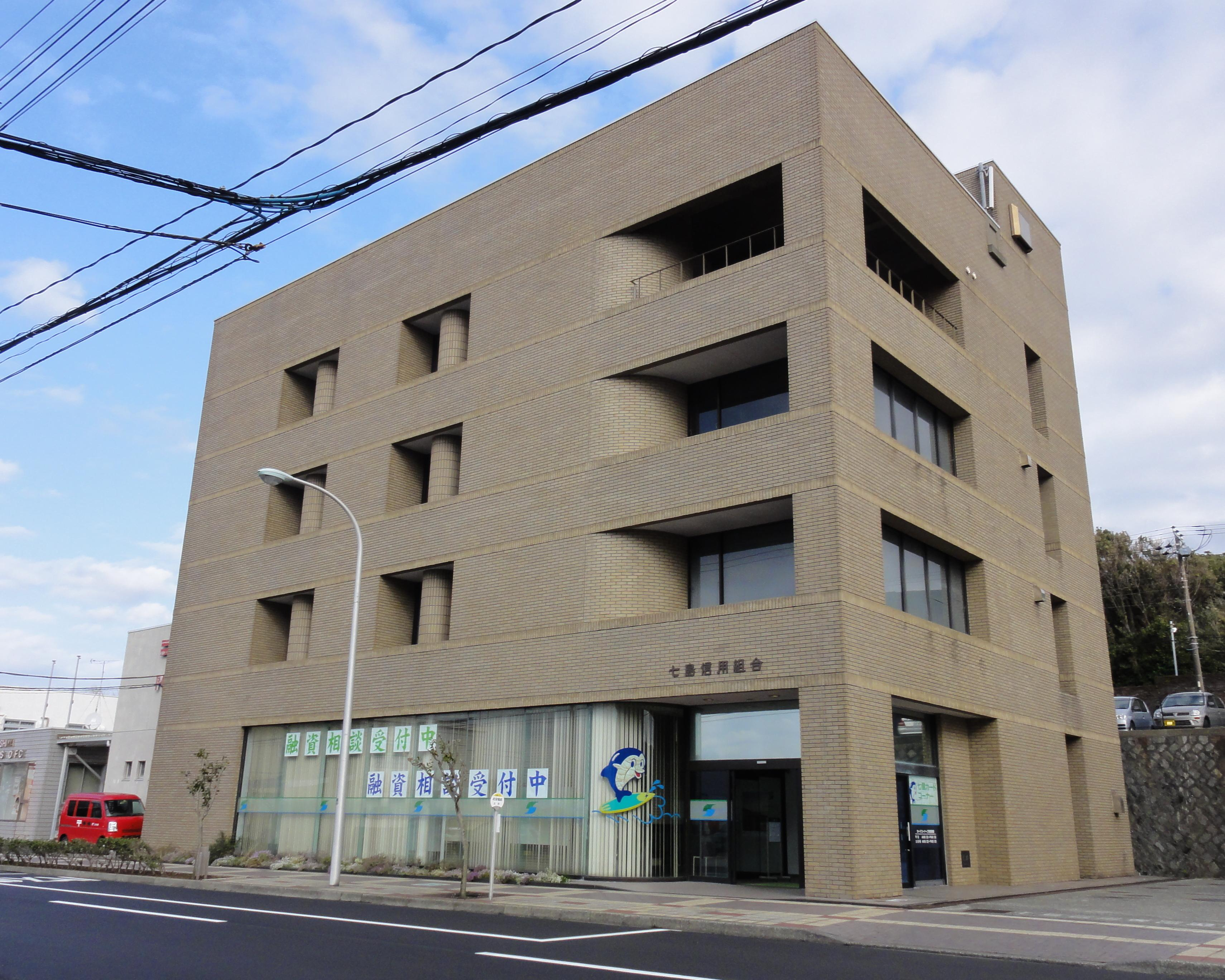 Shichitou Credit union(Head office),Izu Islands,Japan